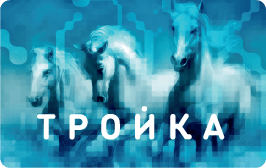 Troika, a contactless smart card designed to pay for public transport in Moscow